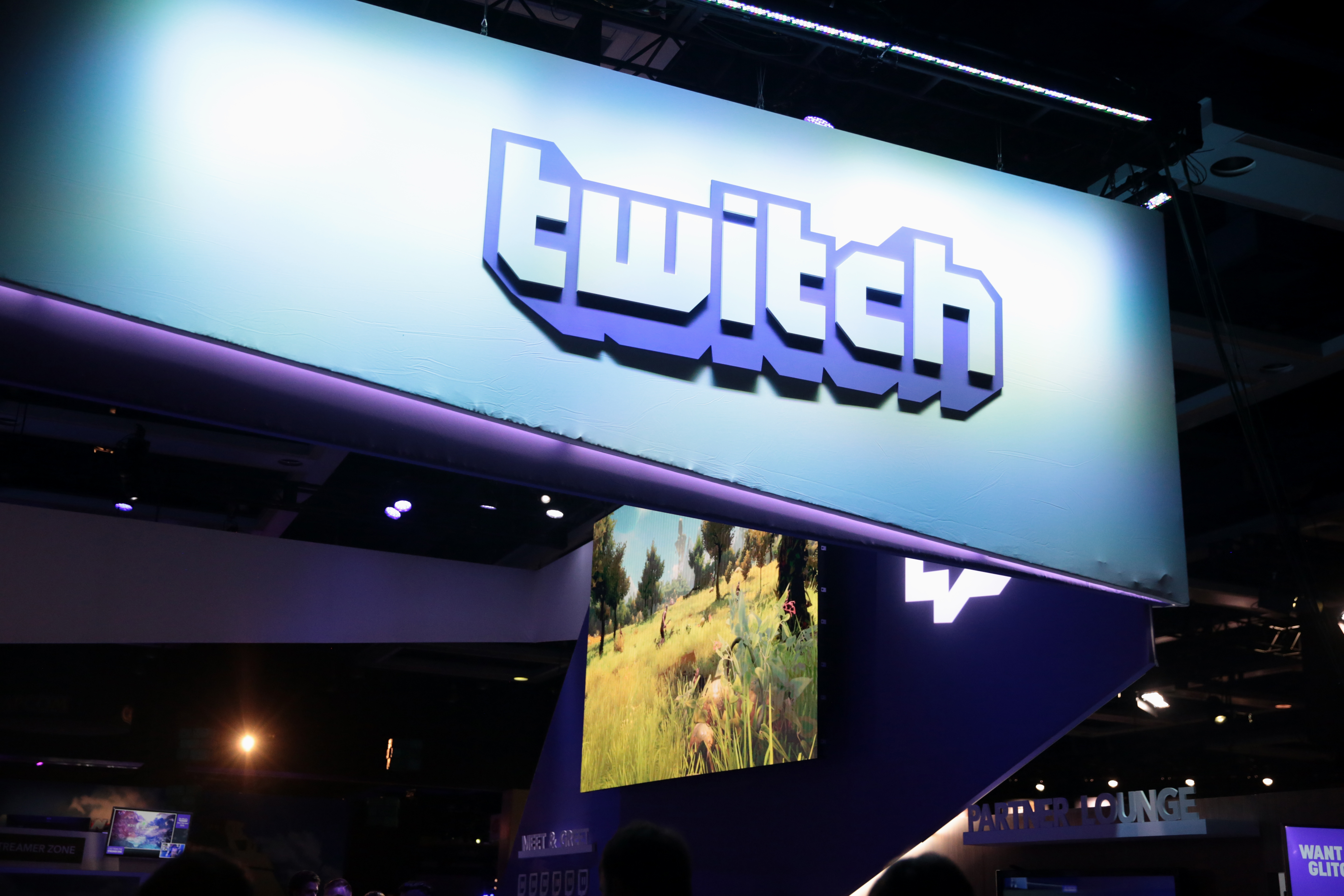 Twitch.tv booth at the 2018 PAX West at the Washington State Convention Center in Seattle, Washington.